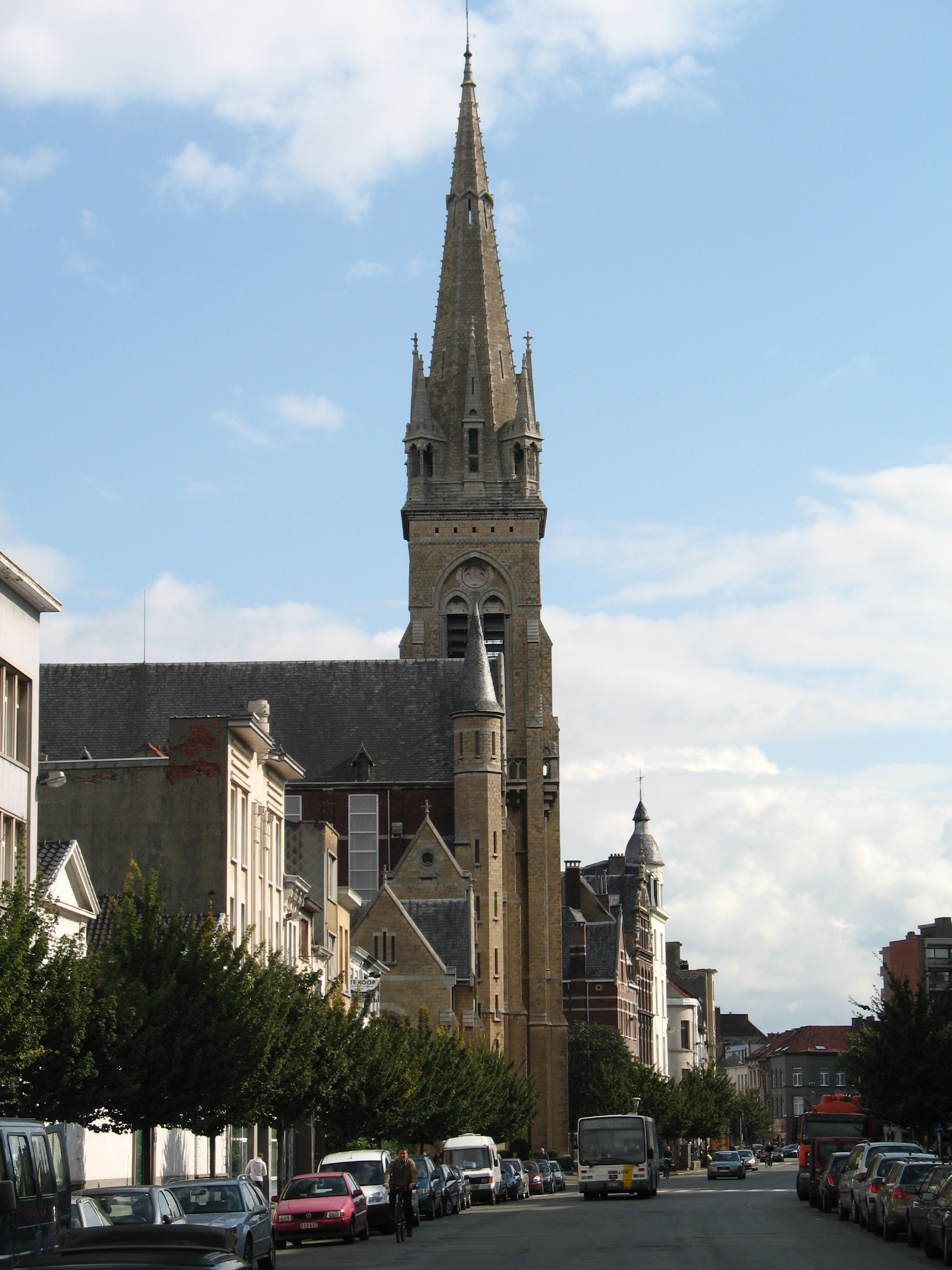 Saint Antonius church in Antwerp